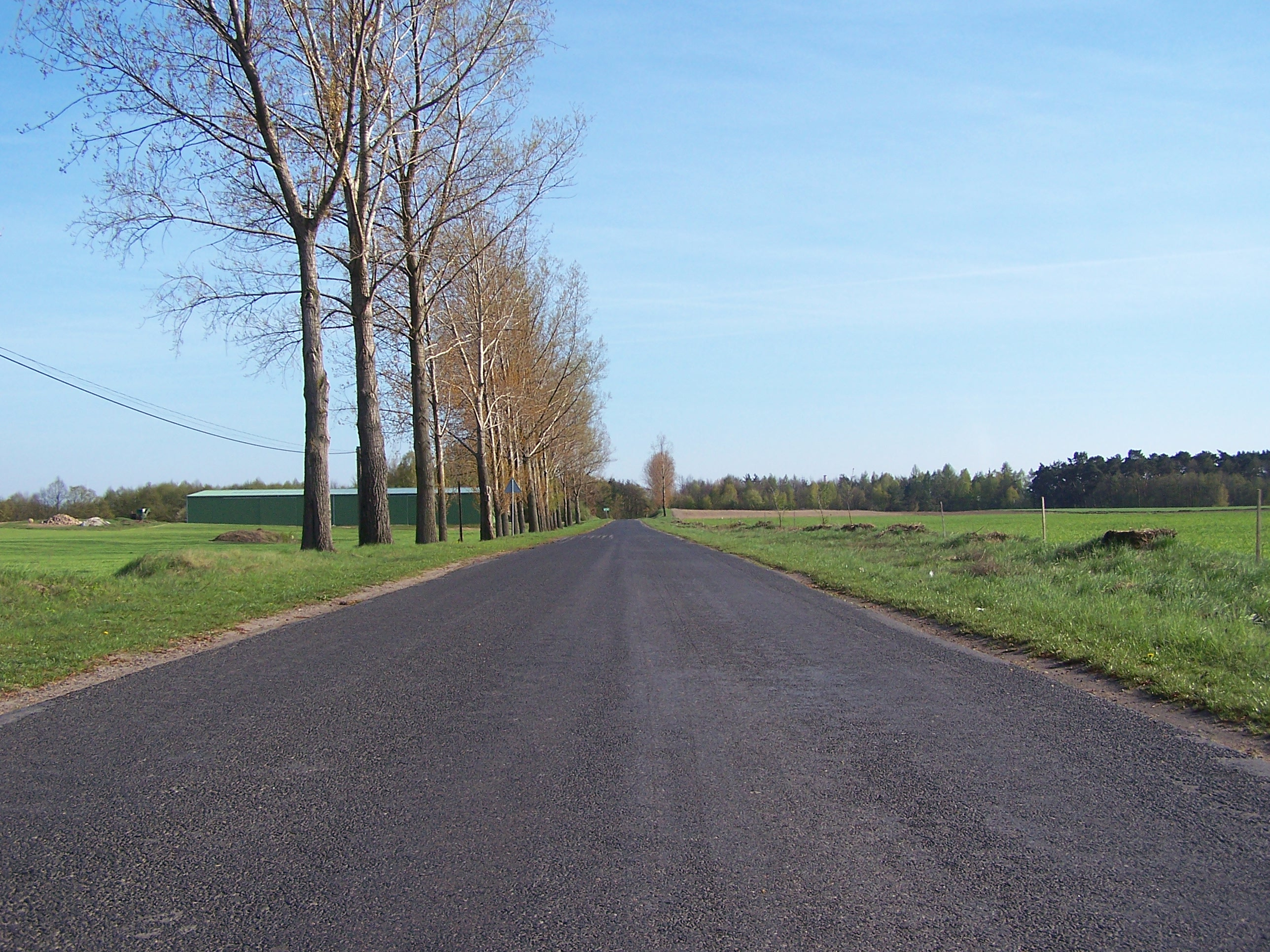 Droga gminna